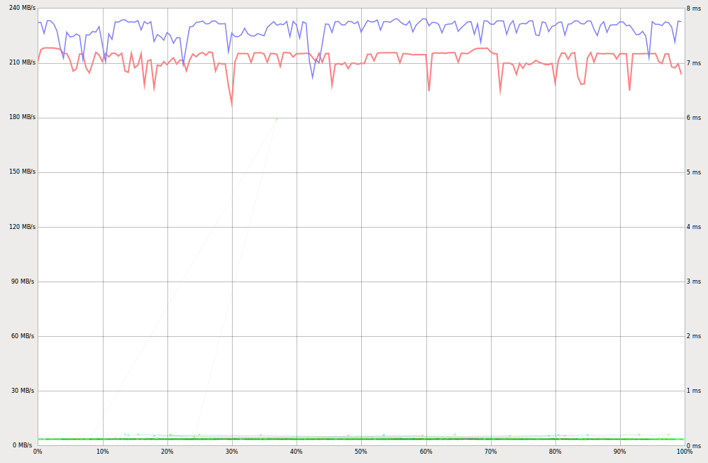 480 GB OCZ-AGIL ITY3 benchmarking result, done with Ubuntu 10.04 LTS using the provided disk utility. The hard drive was connected through USB 3.0 portable enclosure.